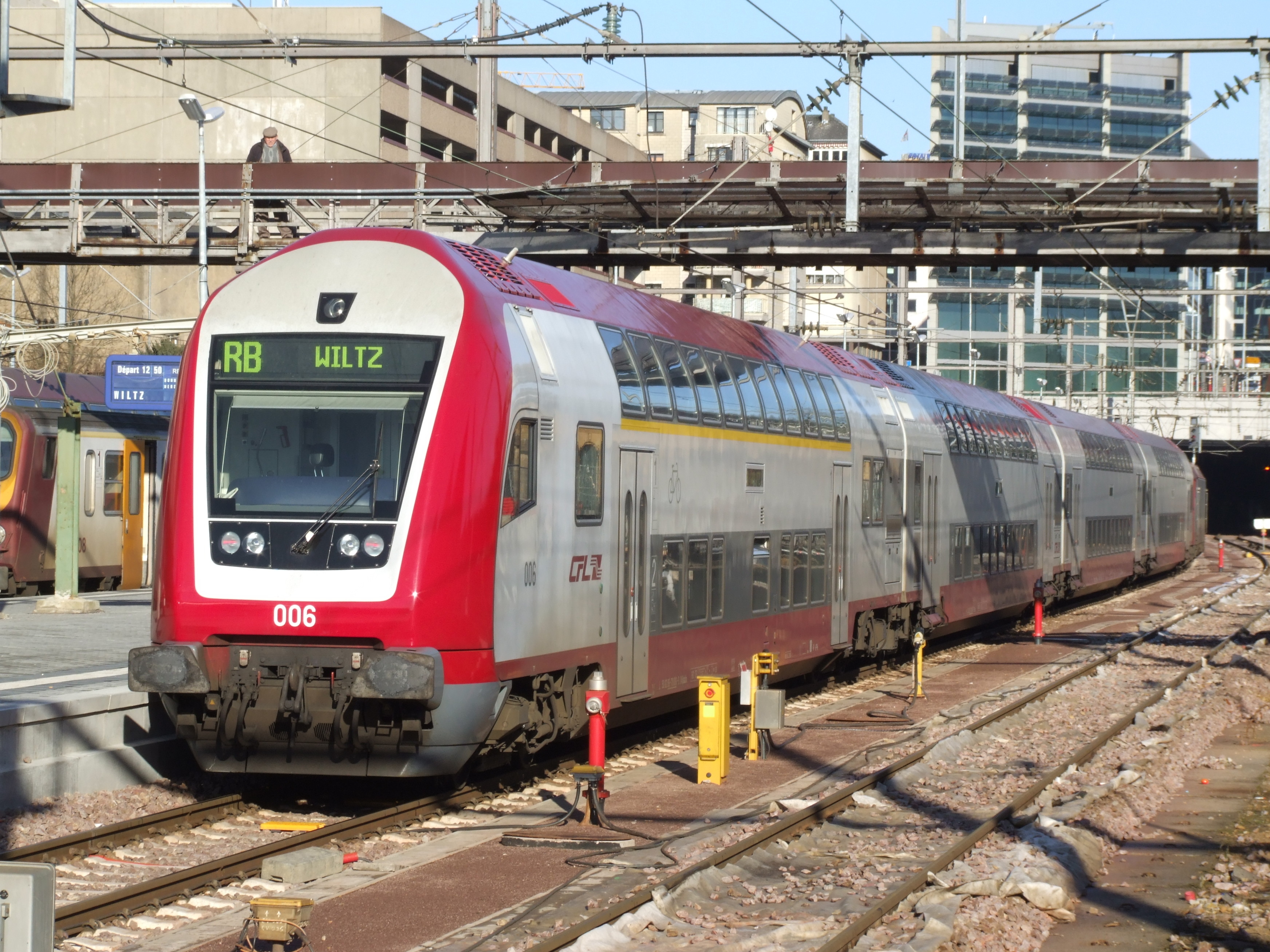 Photographed in Luxembourg.